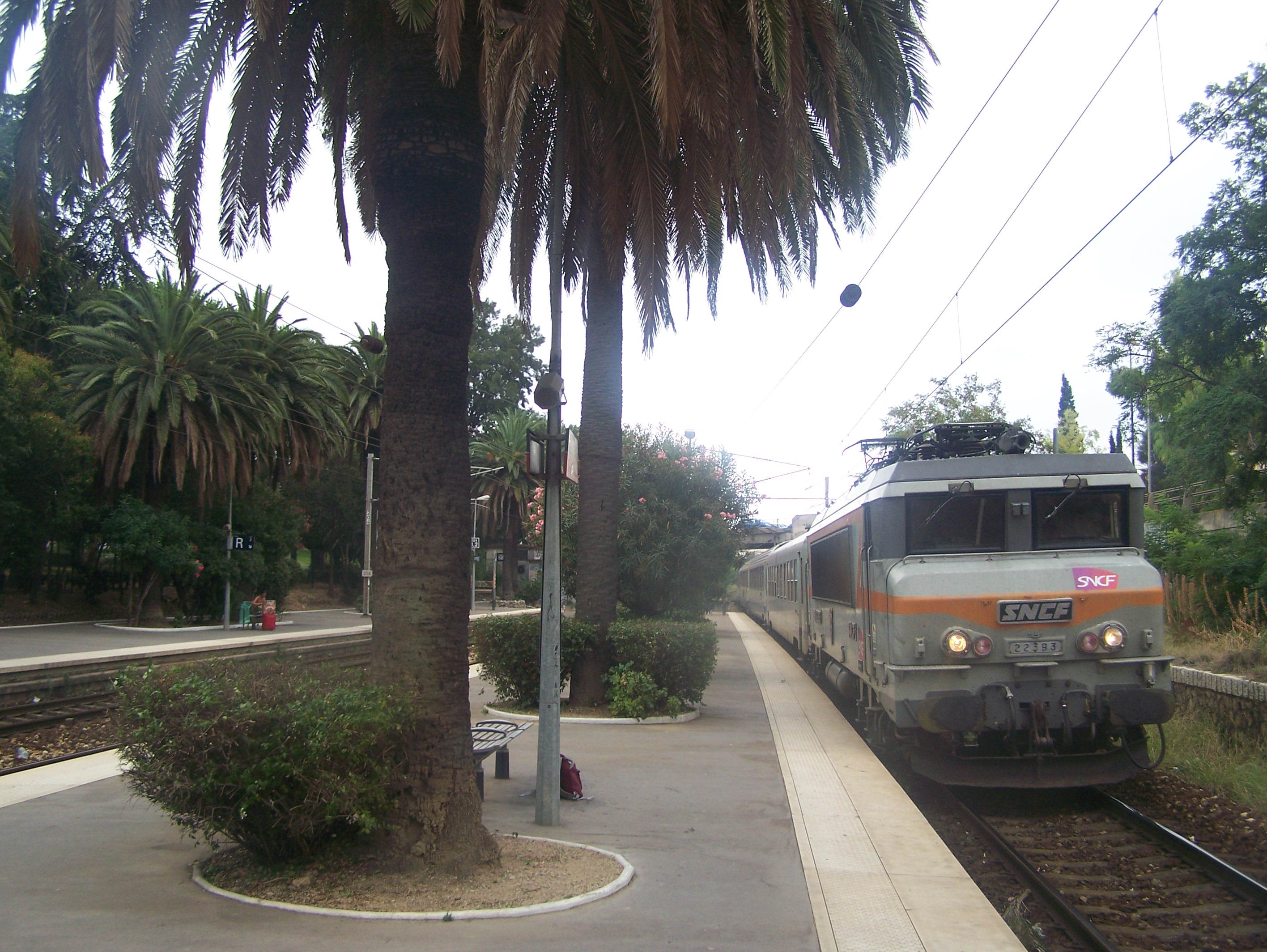 French regional train bound for Nice and Ventimiglia (Italy) is stopping at Antibes station, in Alpes-Maritimes.